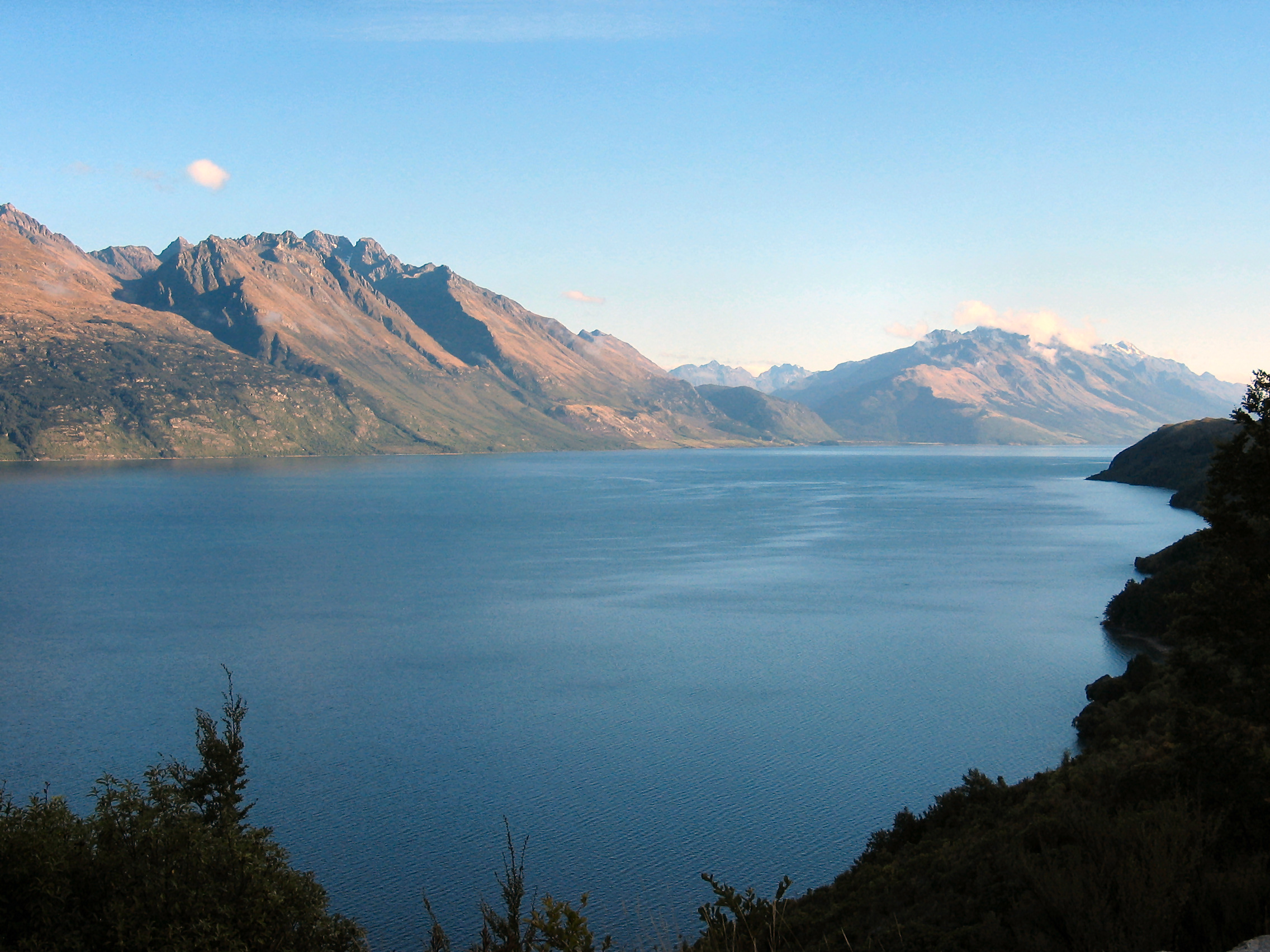 Lake Wakatipu from Queenstown. Photo taken 24 April 2006.